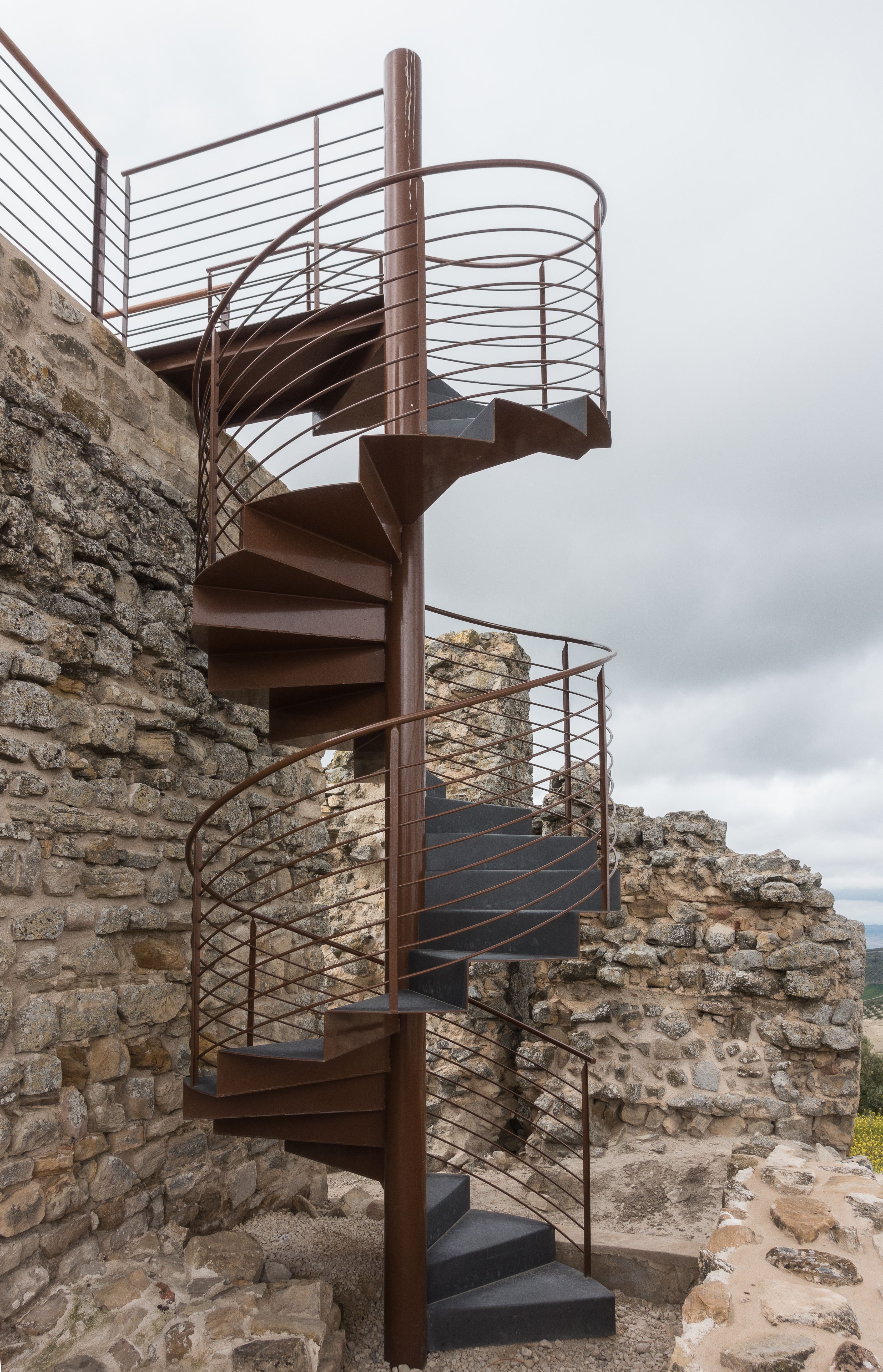 Torreparedones Archaeological Park in Baena, Cordoba, Spain. The Castle in Castro el Viejo. Spiral staircase leading to the keep.